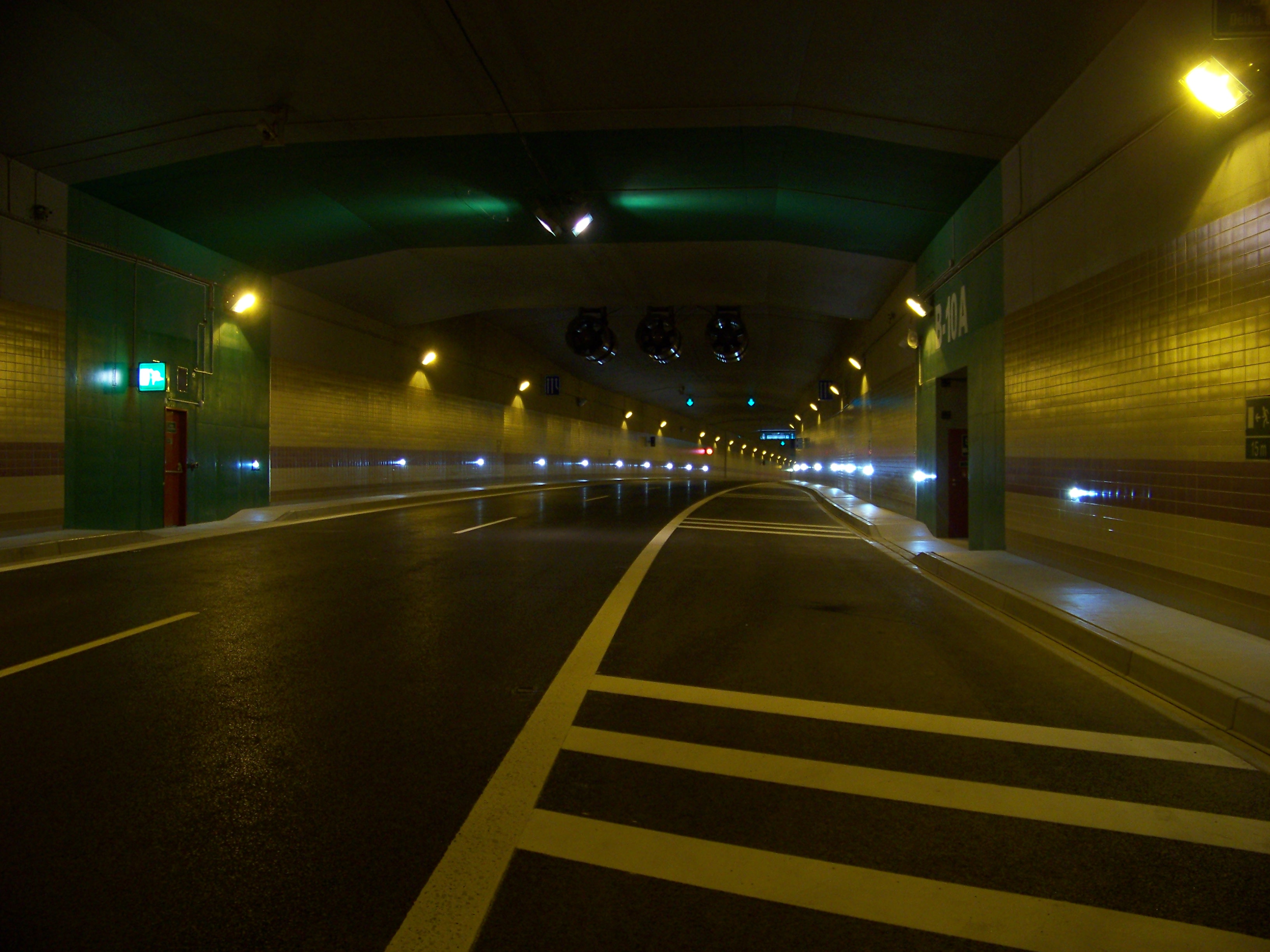 Prague-Bubeneč, Czech Republic. Open doors day of Bubenečský tunel, Dejvický tunel.